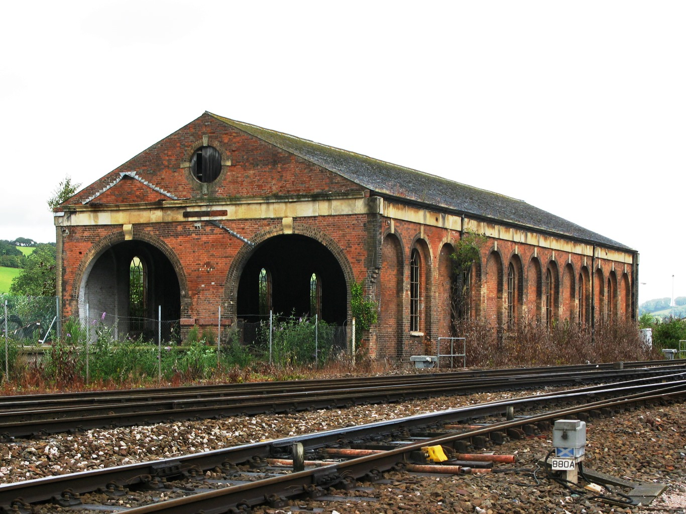 The former goods transfer shed at Exeter St Davids railway station. It was built to transfer goods between the standard guage wagons of the London and South Western Railway and the broad gauge wagons of the Bristol and Exeter Railway and the South Devon Railway.